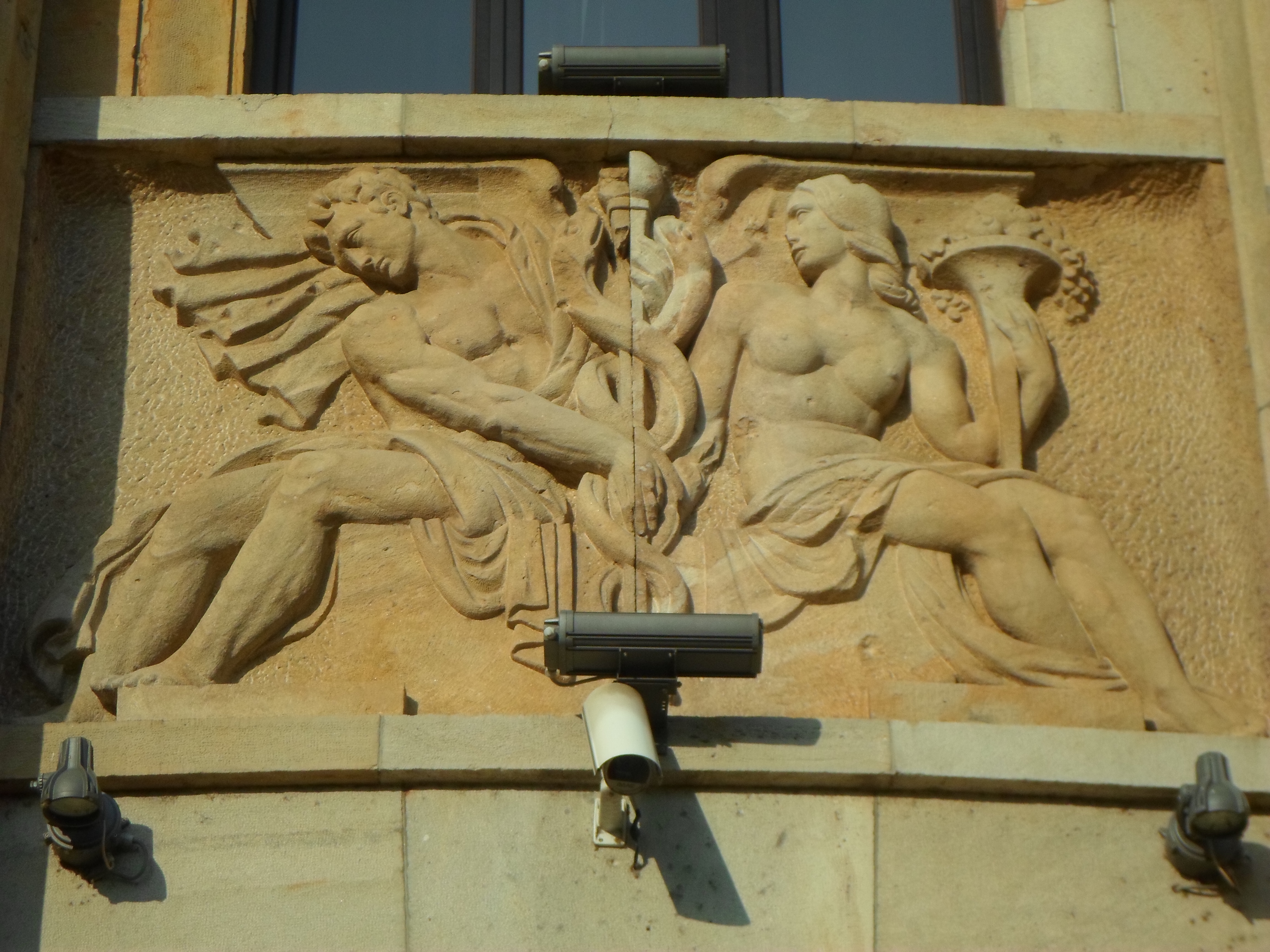 Банова зграда управе This image was uploaded as part of Trace of Soul 2015.